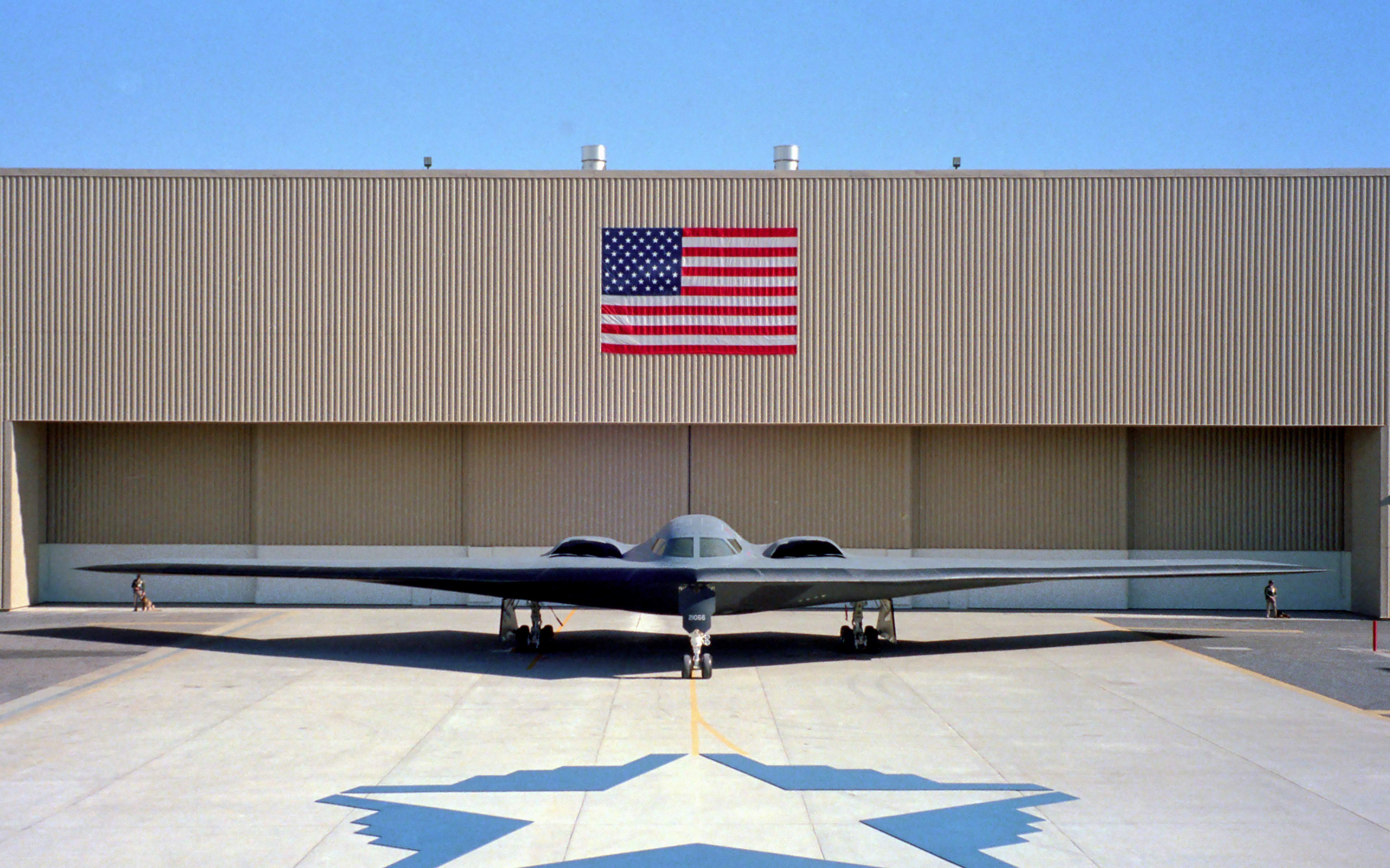 B2 Bomber at initial public rollout in Palmdale, California. Notice the the taxiway art work, using five B-2's to create a star.